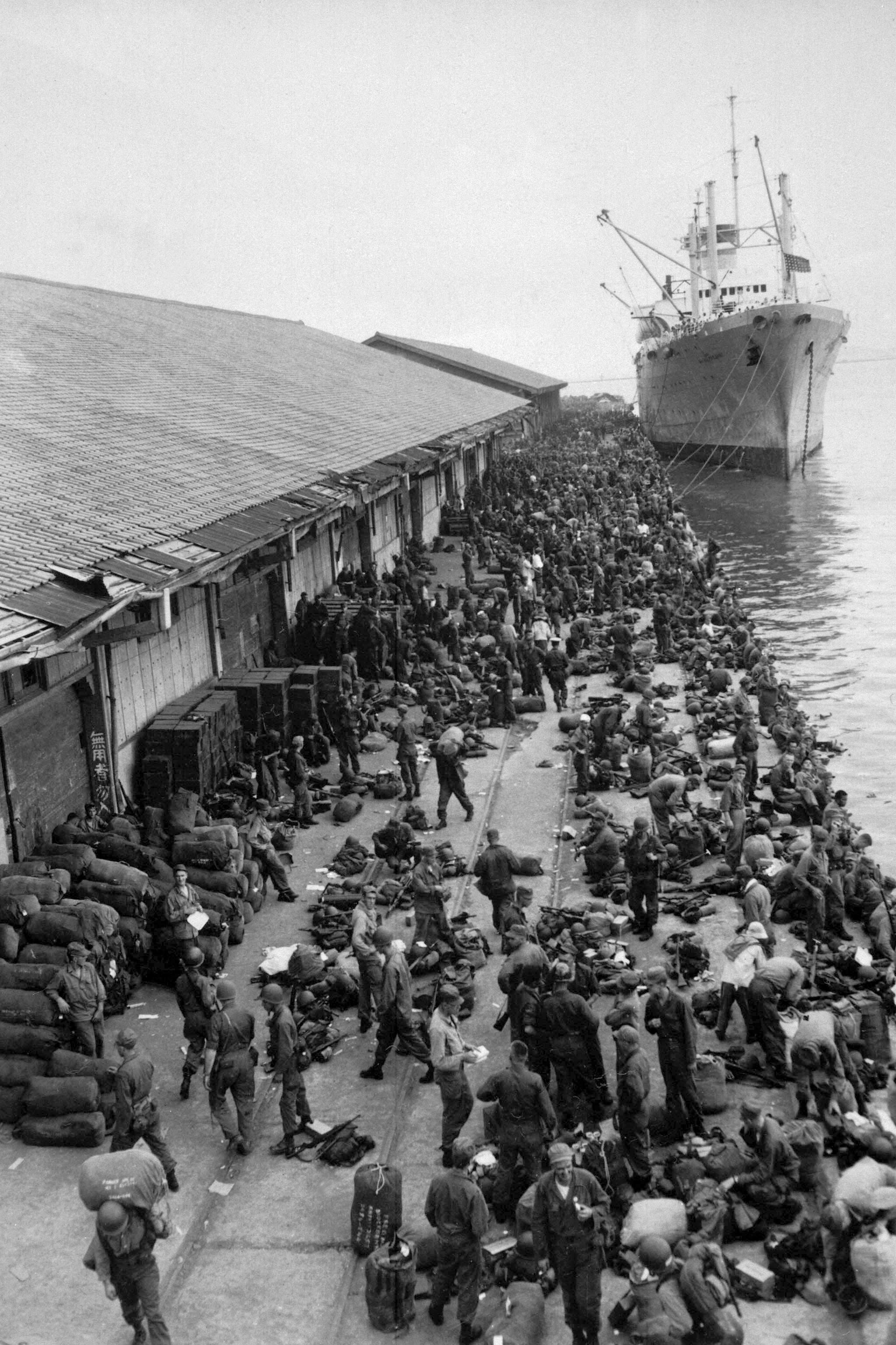 U.S. troops are pictured on pier after debarking from ship, somewhere in Korea. August 6, 1950. Sgt. Dunlap. (Army) NARA FILE #: 111-SC-345283 WAR & CONFLICT BOOK #: 1382